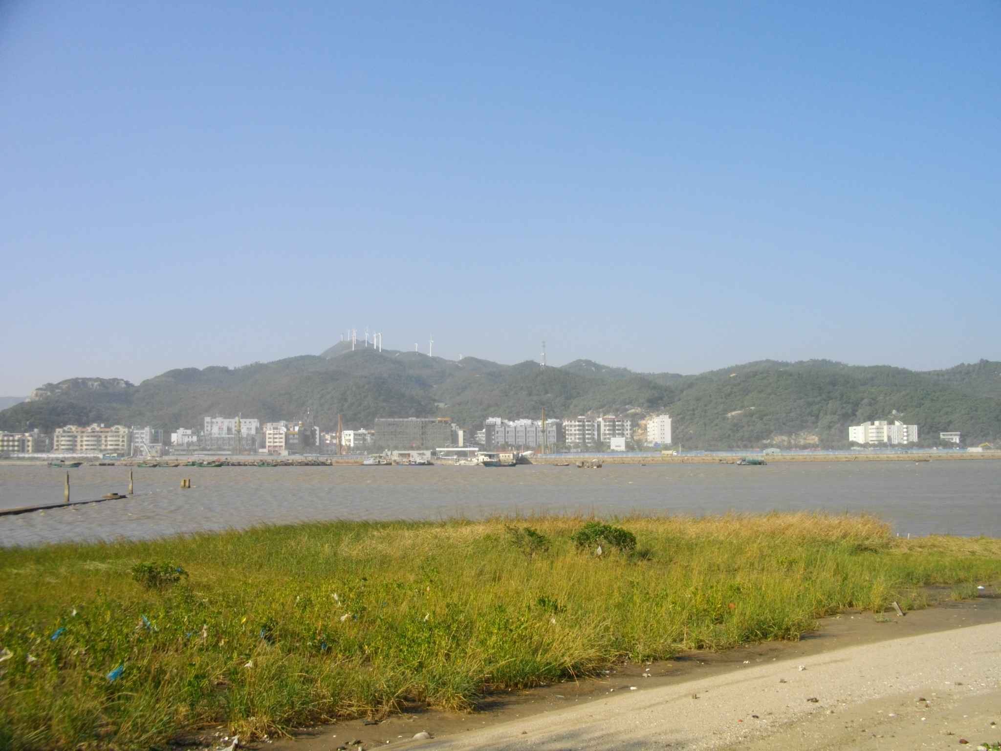 Hengqin Island view from Coloane